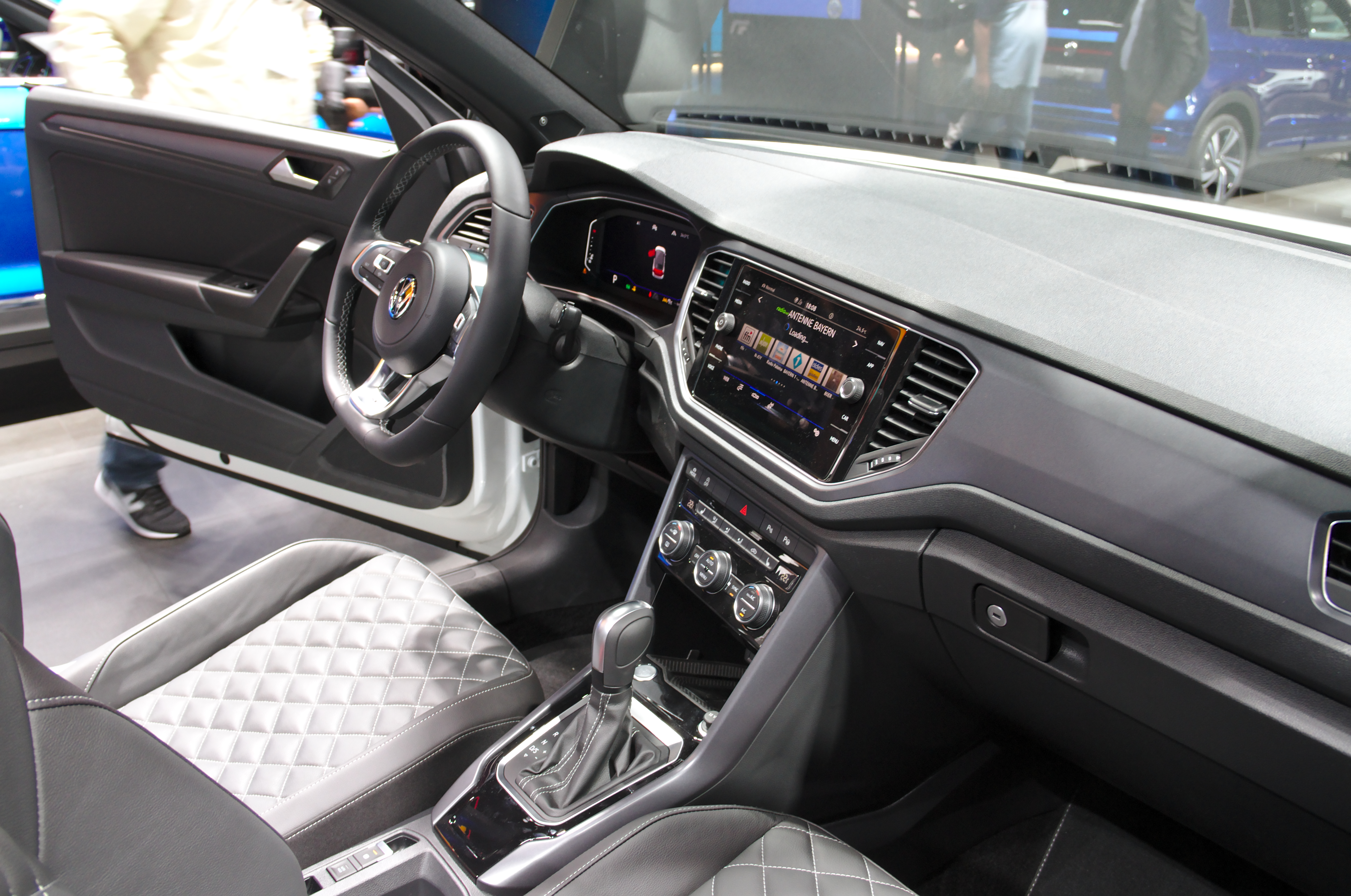 Volkswagen_T-Roc_Cabriolet at IAA 2019